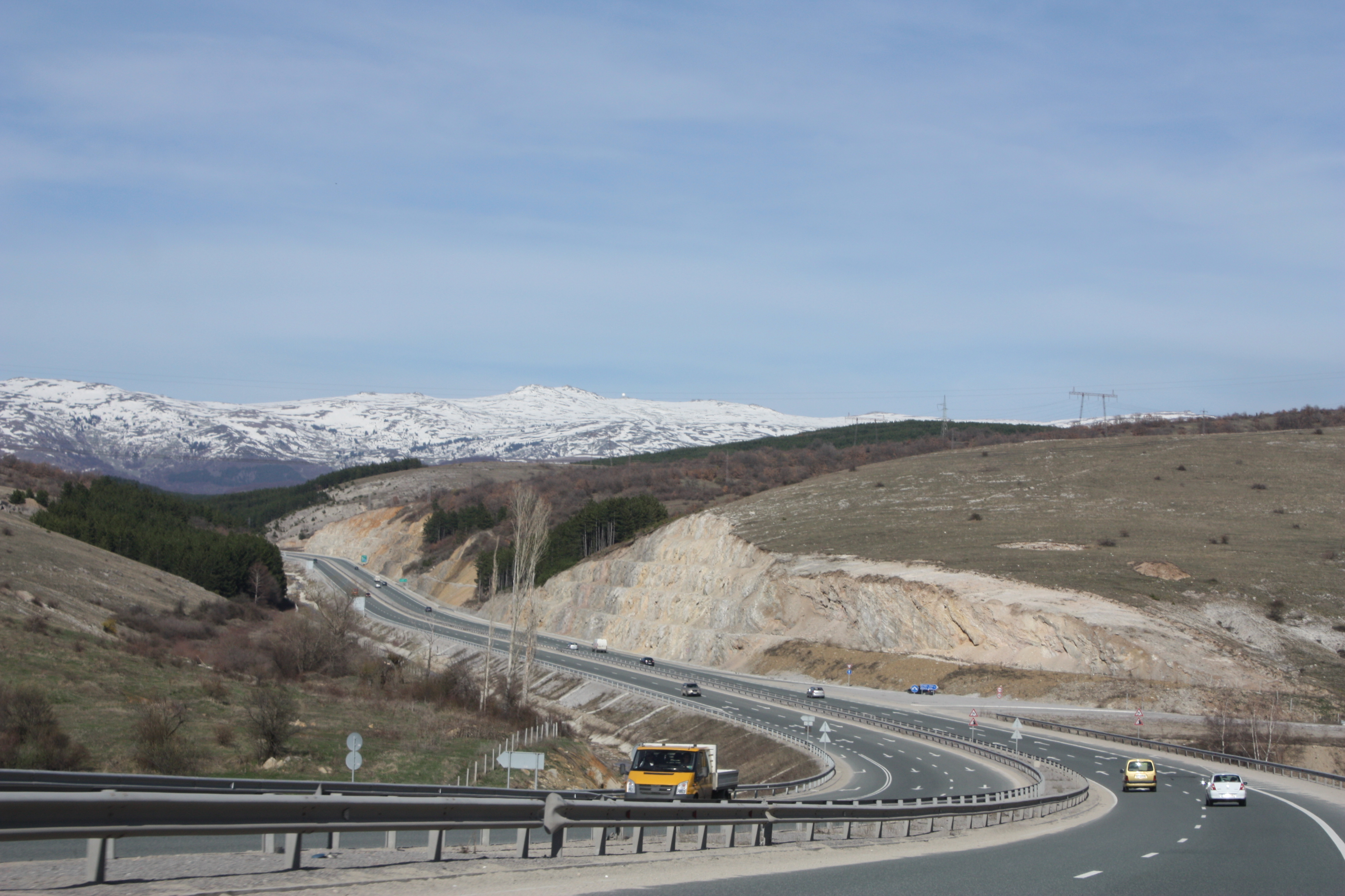 Struma highway, heading north close to Sofia, Bulgaria